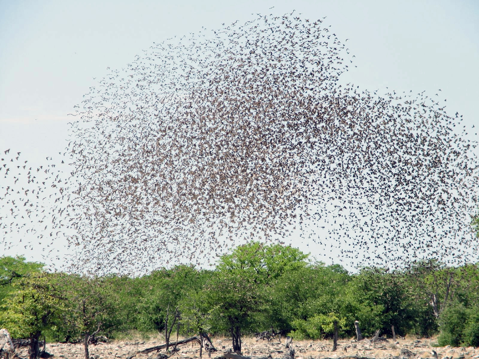 Red-billed Quelea Quelea quelea flock at waterhole.